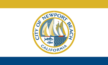 Flag of Newport Beach, California. I made this image myself, and based it on a photograph of the actual thing here ( You will note that the seal is upwards of the middle of the flag in the photograph, which is a (slightly unusual) feature which I have replicated in this image.